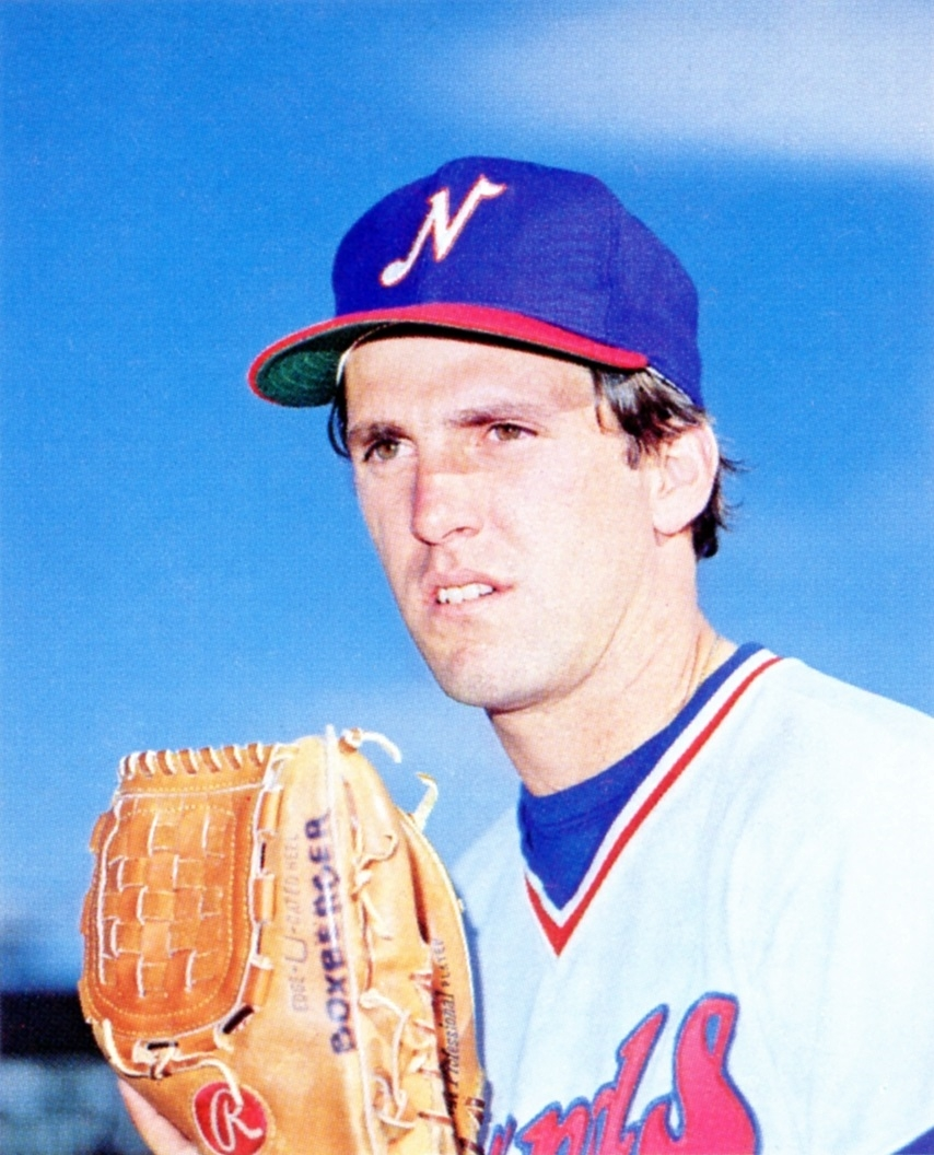 Pitcher Rod Boxberger of the 1981 Nashville Sounds Minor League Baseball team of the Southern League